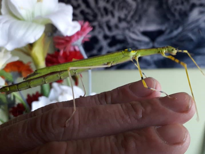 Picture taken by me with the Marmessoida rosea - PSG 46 on my hand at home.